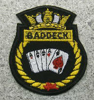 Crest of the ship HMCS Baddeck.